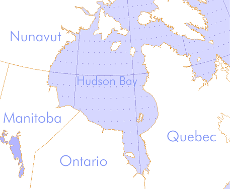 Hudson Bay